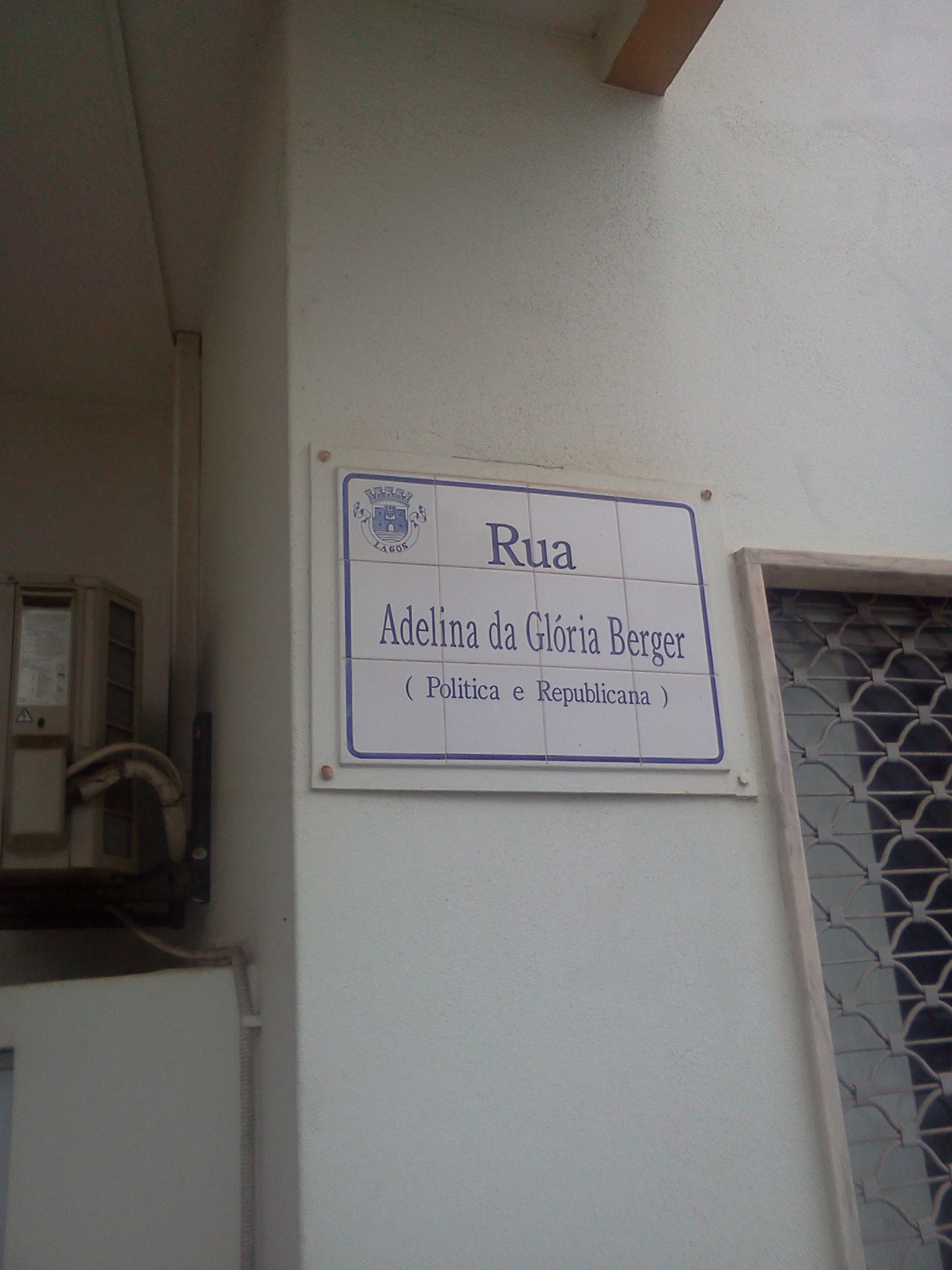 Street sign of Rua Adelina da Glória Berger, in the city of Lagos, in southern Portugal.